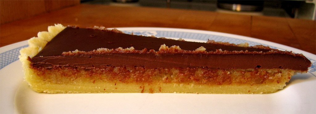 Chocolate tart with frangipane in the center. Frangipane is a filling made from or flavored like almonds.